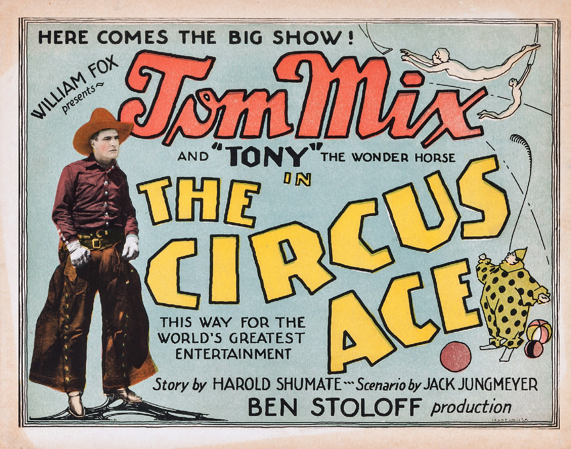 Poster del film The Circus Ace (1927).